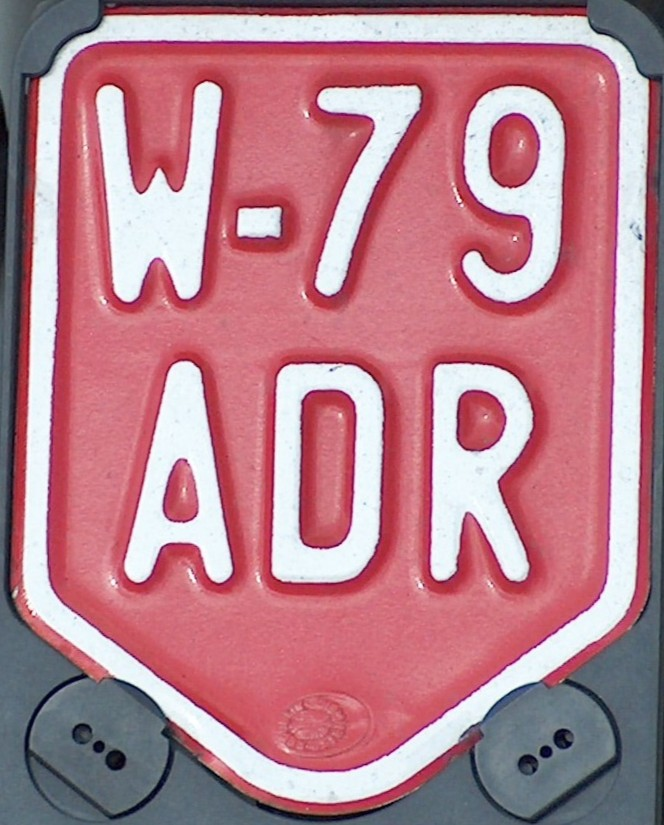 Austrian moped plate since 1990, W = Vienna